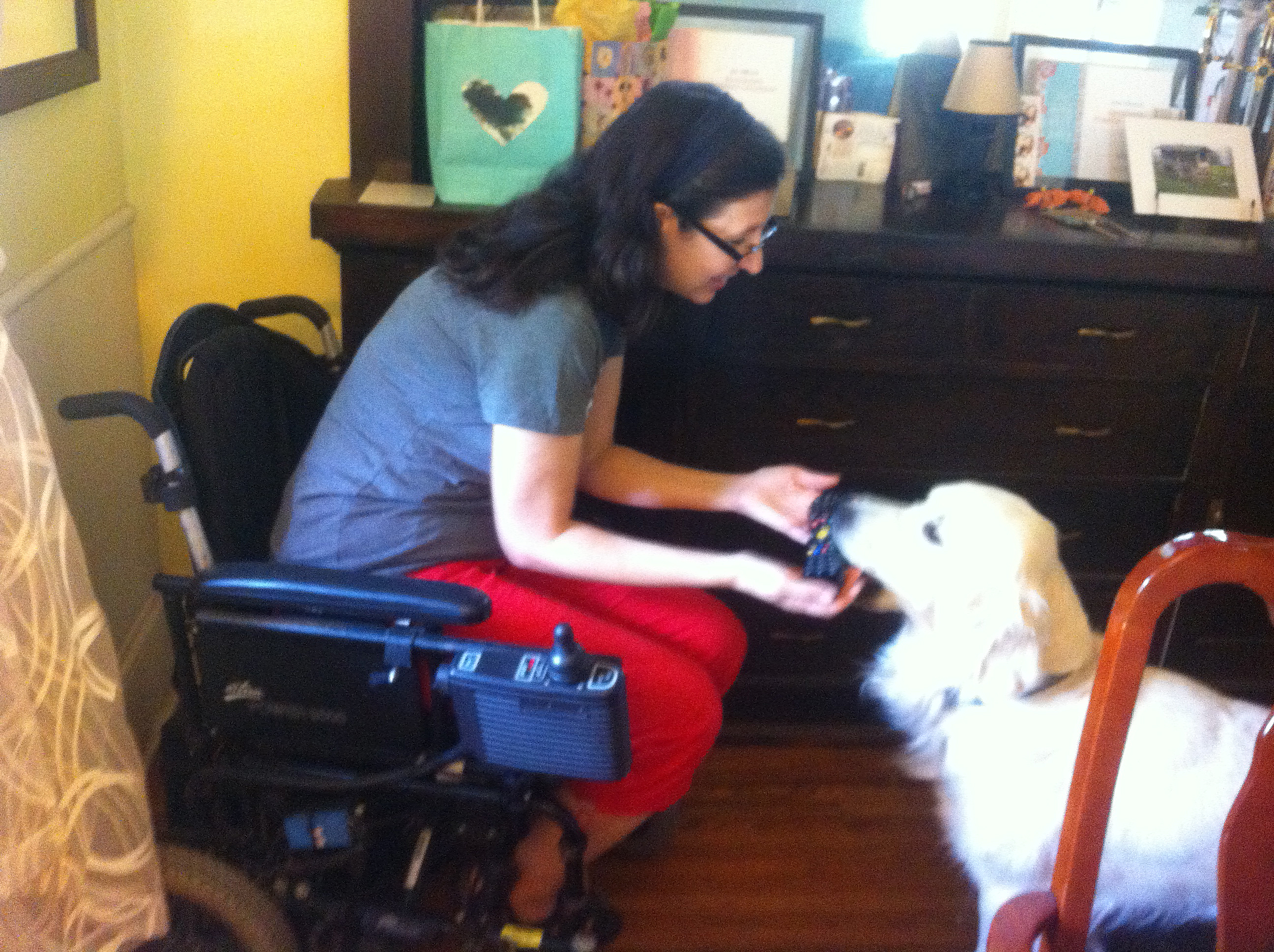 Service dog bringing TV remote to person in wheelchair.